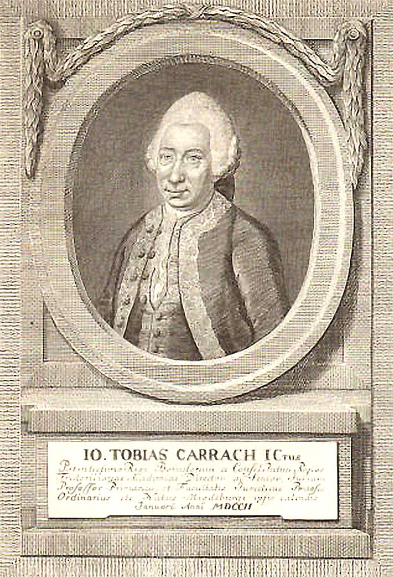 Johann Tobias Carrach (1702-1775) Jurists from Germany